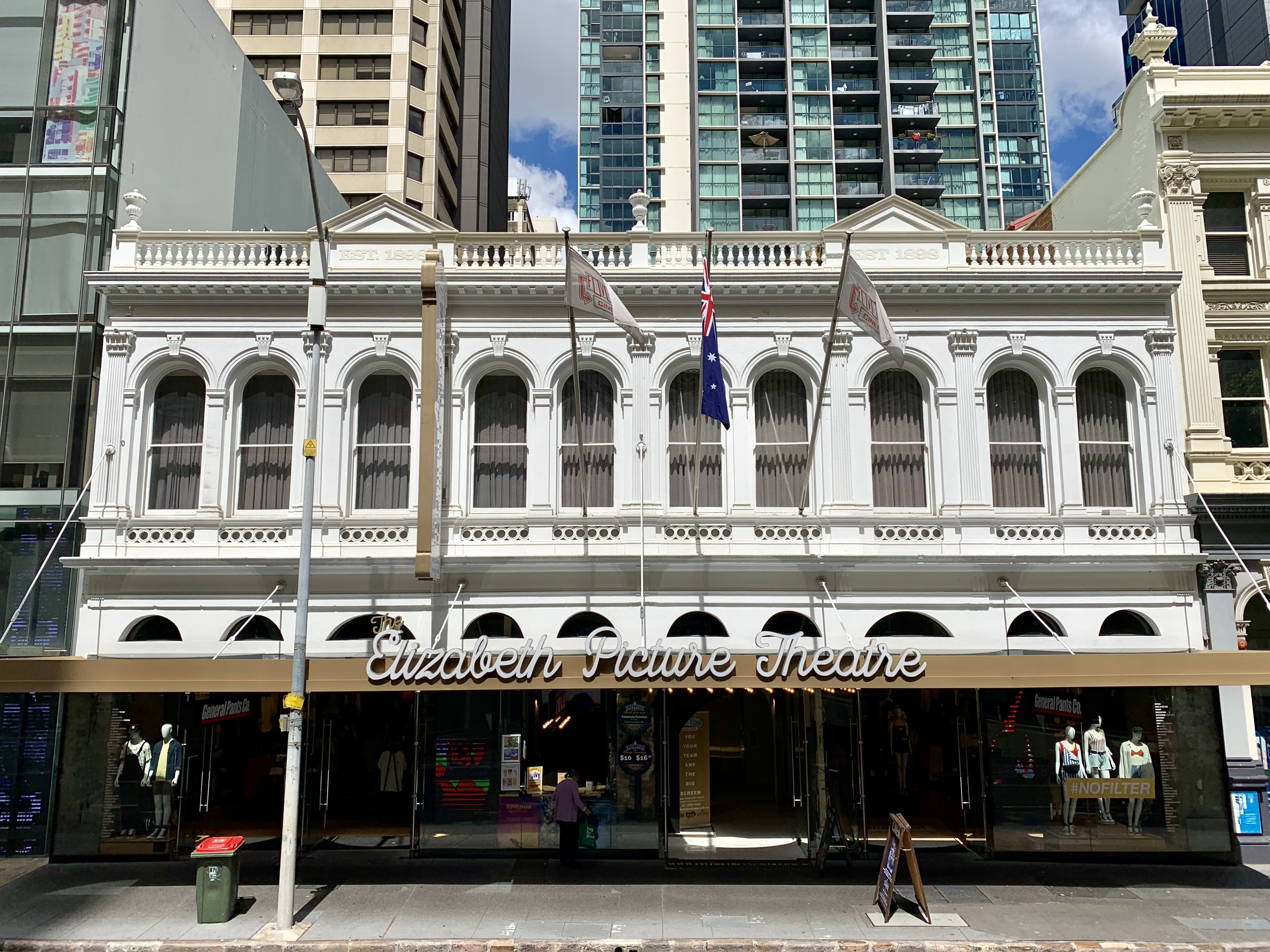 Tara House at 179 Elizabeth Street, Brisbane, Queensland